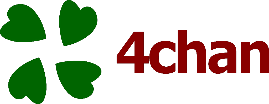 Logotype of the 4chan imageboard website.